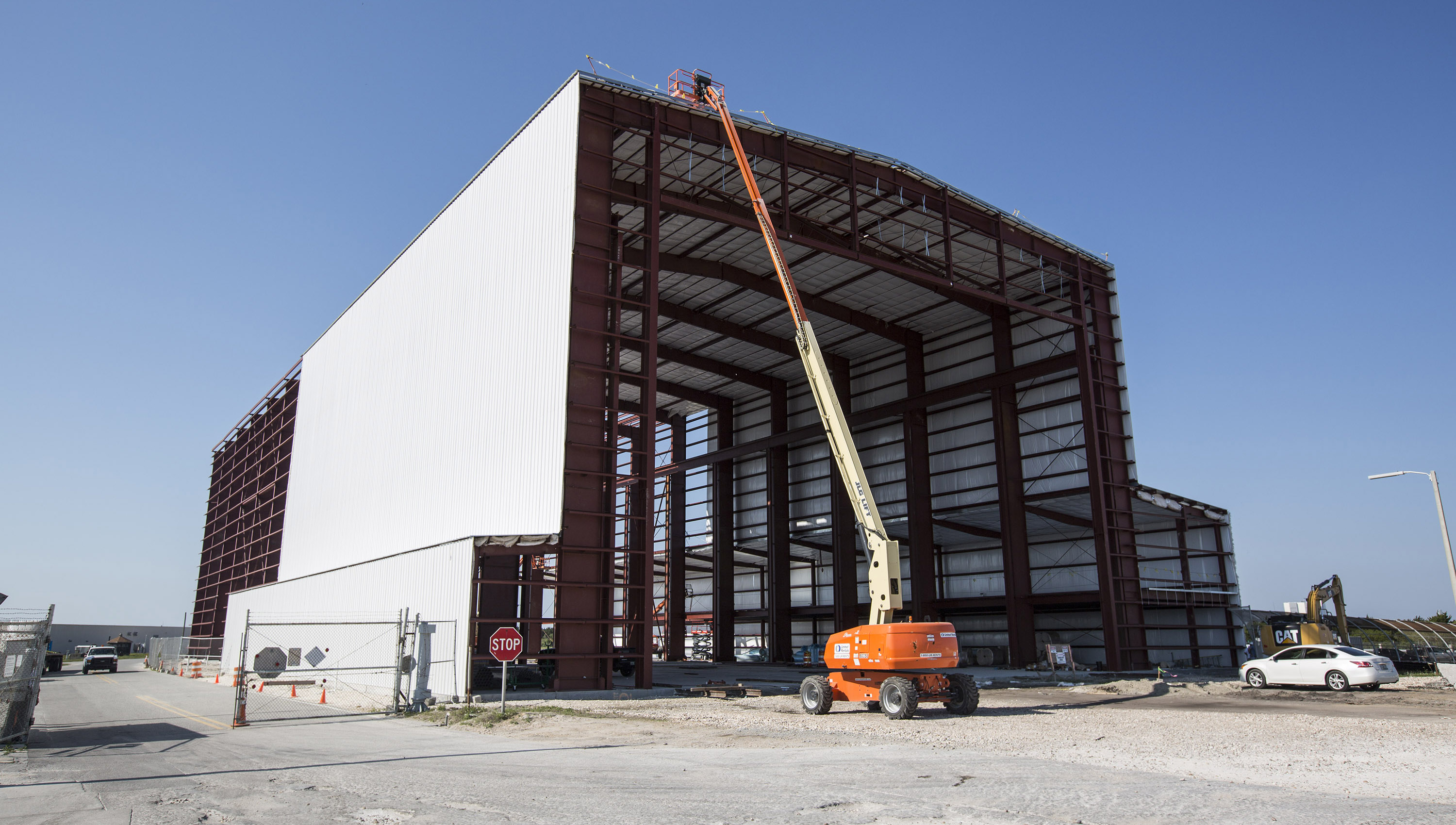 Continued progress on Launch Complex 39A and its hangar that will house Falcon 9 and Falcon Heavy at NASA's Kennedy Space Center in Florida.